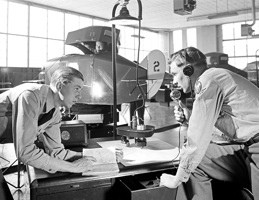 Title: [Military Personnel Using Link Trainer, Pepperell Manufacturing Company] Creator: Richie, Robert Yarnall, 1908-1984 Date: February 1943 Part Of: Robert Yarnall Richie Photograph Collection Place: San Antonio, Texas Description: Military personnel training on a Link Aviation flight simulator. The pilot inside of the simulator is communicating with one of the training personnel over a headset, while another consults a booklet. Physical Description: 1 negative: film, black and white; 10.1 x 12.6 cm File Name: ag1982_0234_2509_47_pepperellmfgco_sm_opt.jpg Rights: Please cite DeGolyer Library, Southern Methodist University when using this file. A high-resolution version of this file may be obtained for a fee. For details see the web page. For other information, . For more information and to view the image in high resolution, View Robert Yarnall Richie photograph collection at